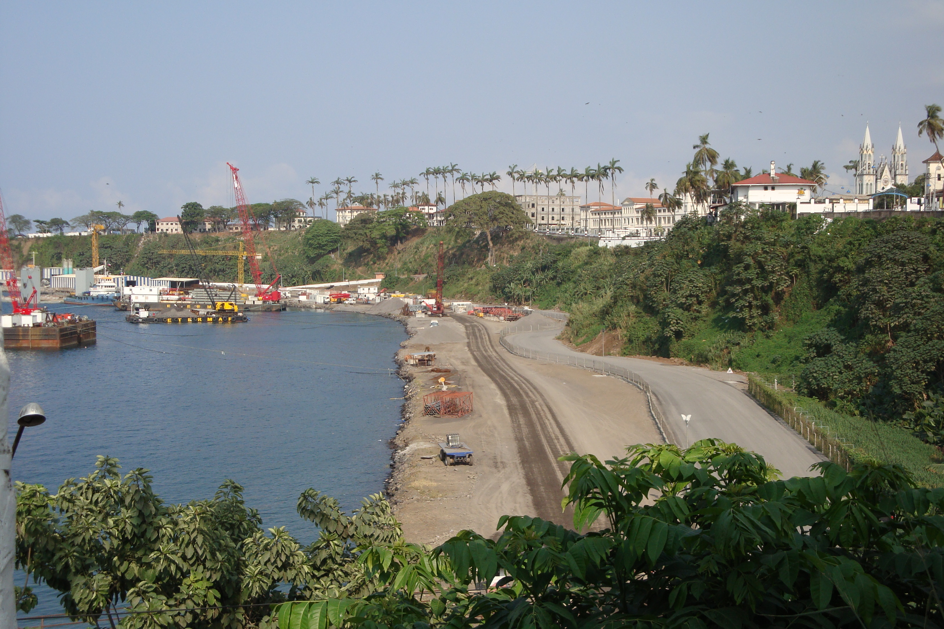 This is an image with the theme "Africa on the Move or Transport" from: Equatorial Guinea